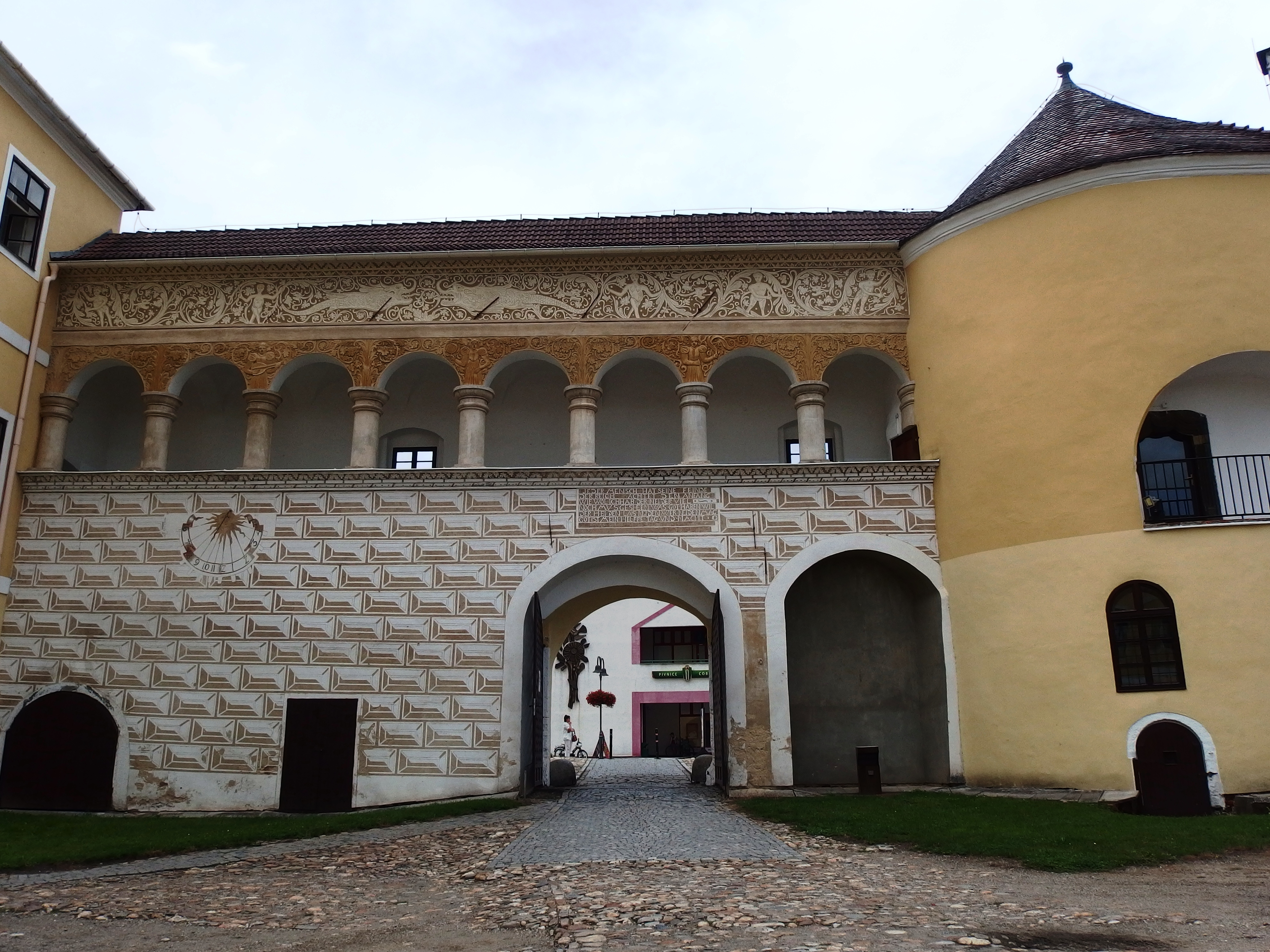 Krnov, Bruntál District, Czech Republic. Castle.